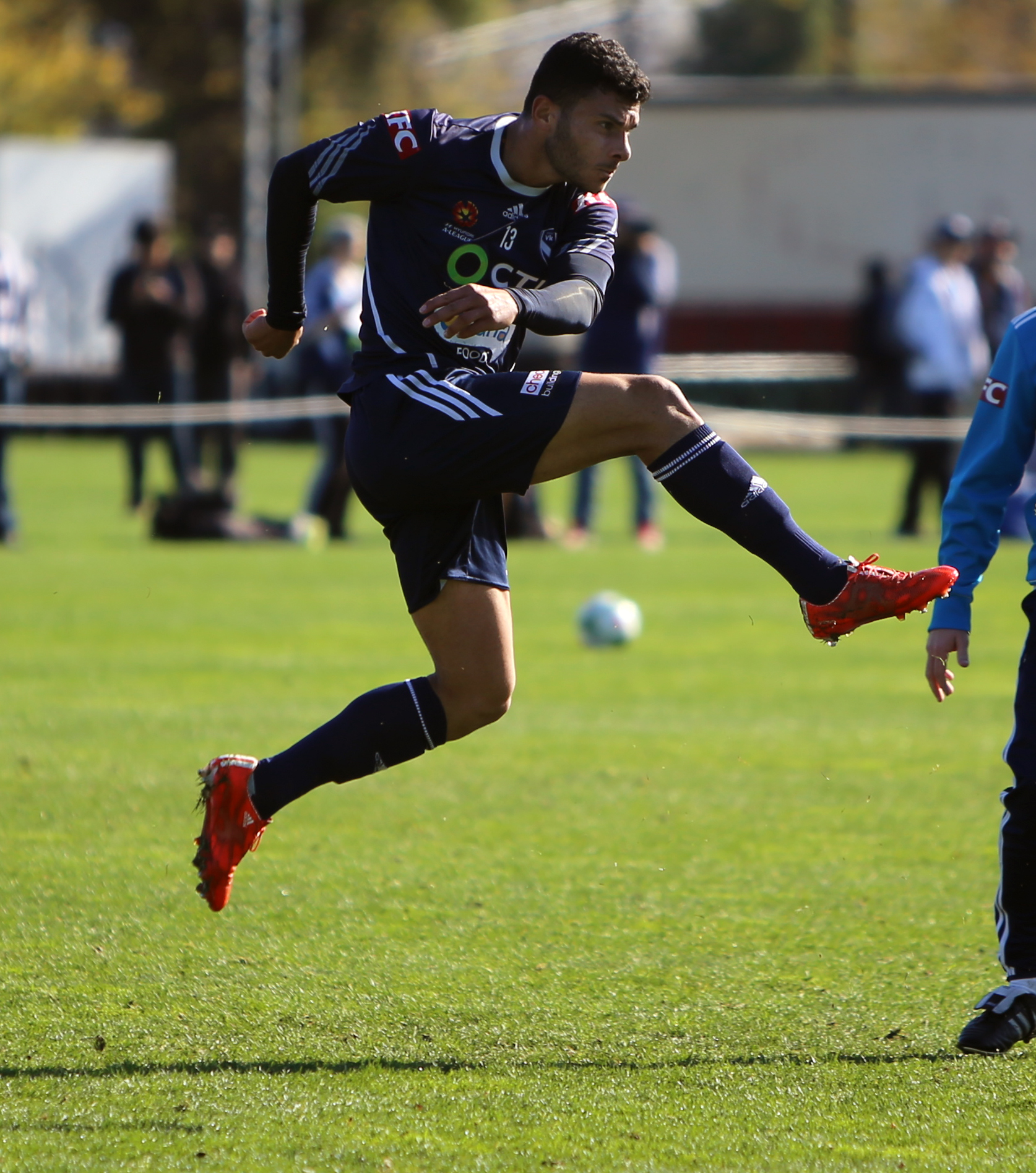 Andrew Nabbout training for Melbourne Victory, May 2015